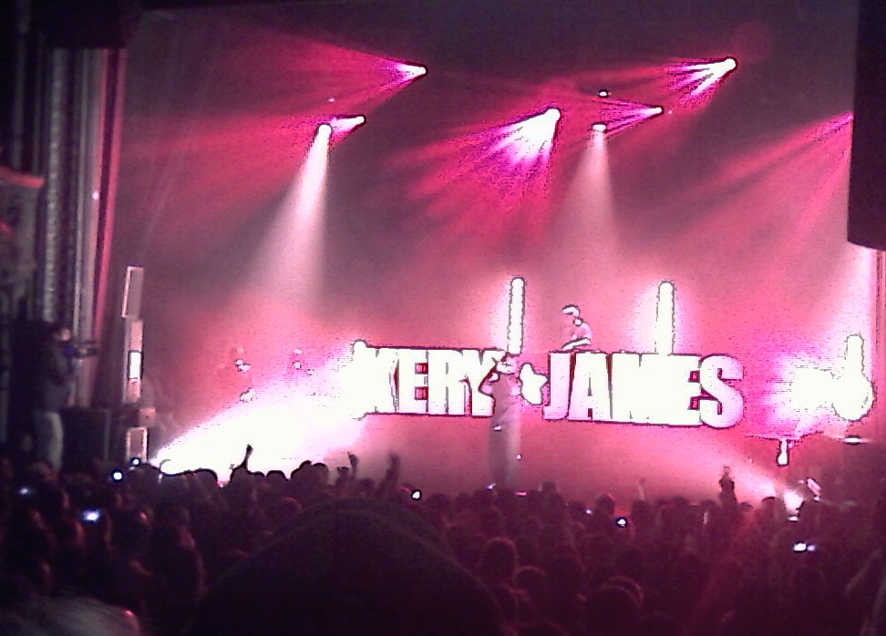 Kery James during his show (october 29th 2008) at La Cigale, Paris, France.